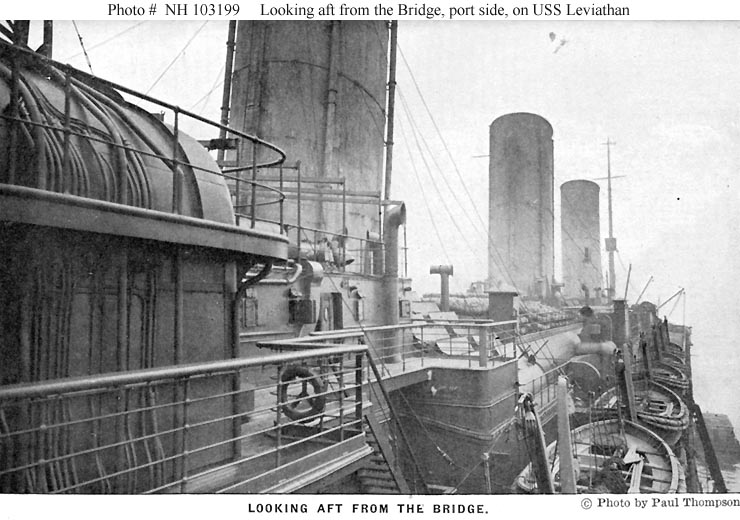 Photo #: NH 103199 USS Leviathan (ID # 1326) Halftone reproduction of a photograph of the ship's superstructure, taken from her port bridge wing, looking aft, in 1919. This image, photographed by Paul Thompson, was published in 1919 by the National Specialties Company of New York City, as one of ten photographs in a "Souvenir Folder" of views concerning USS Leviathan. Donation of Dr. Mark Kulikowski, 2005. U.S. Naval Historical Center Photograph, online at